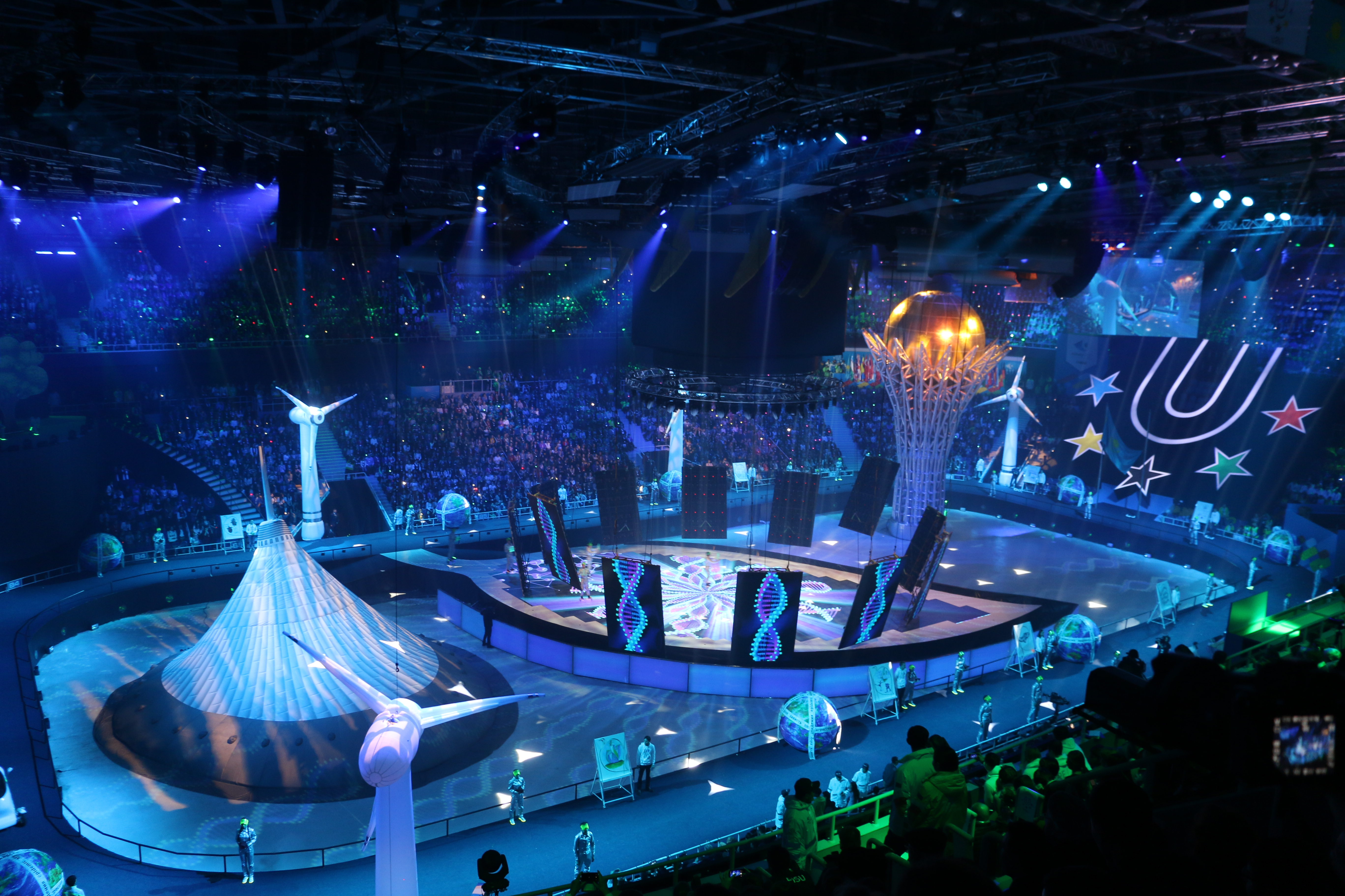 Universiade 2017. Opening Ceremony